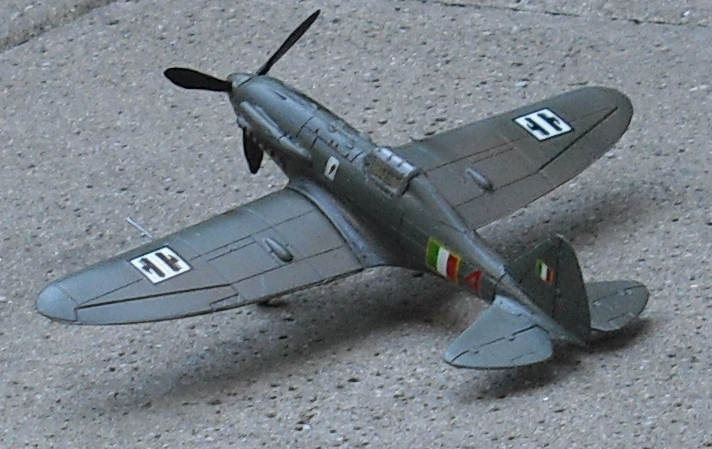 Model picture of a Reggiane Re.2005